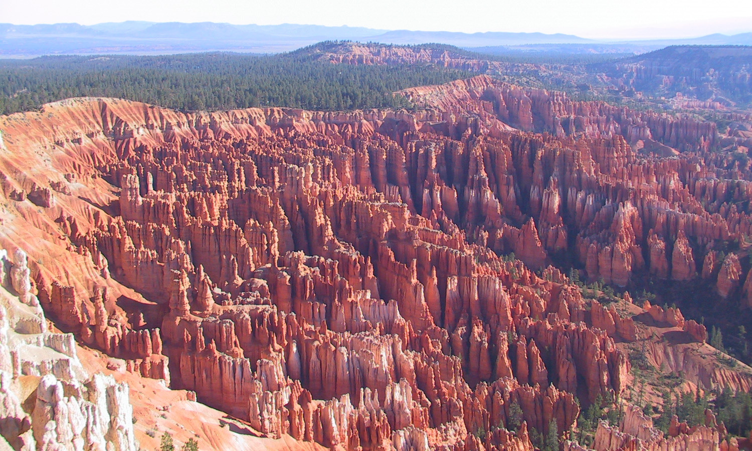 amphitheater at Bryce Canyon National Park